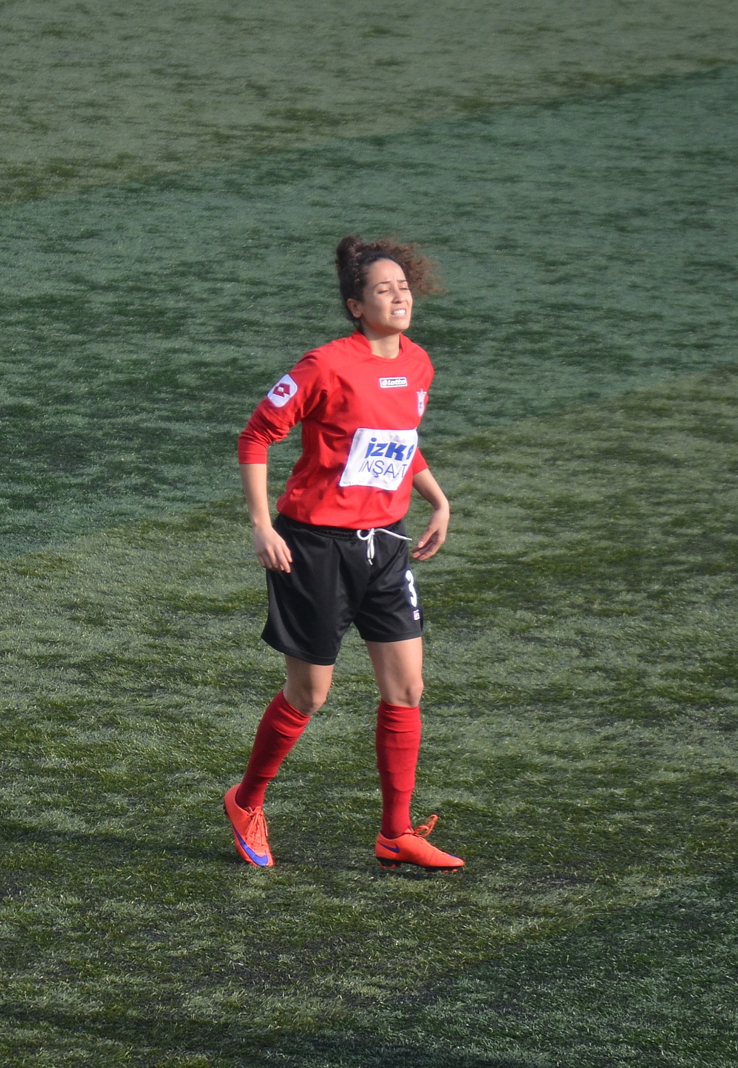 Özge Özel playing for Konak Belediyespor in the 2015-16 season